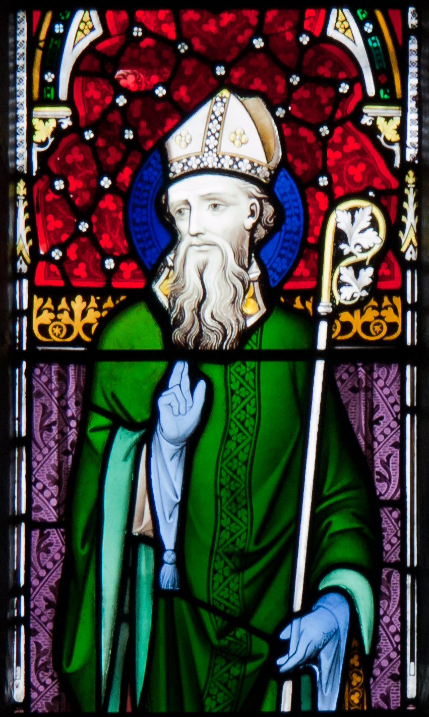 Detail of a stained glass window in the chancel depicting one of the early saints of County Wexford, Aidán.